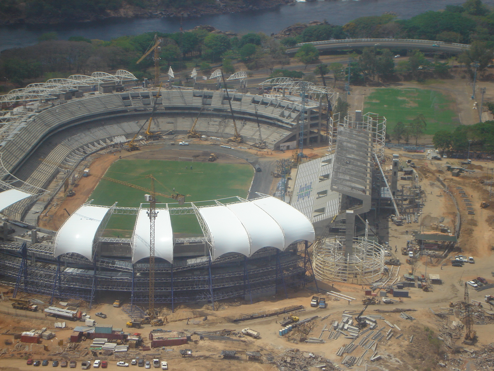 CTE Cachamay during remodeling works